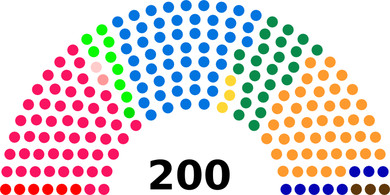 Seats diagramme of Swiss National Council (1979)